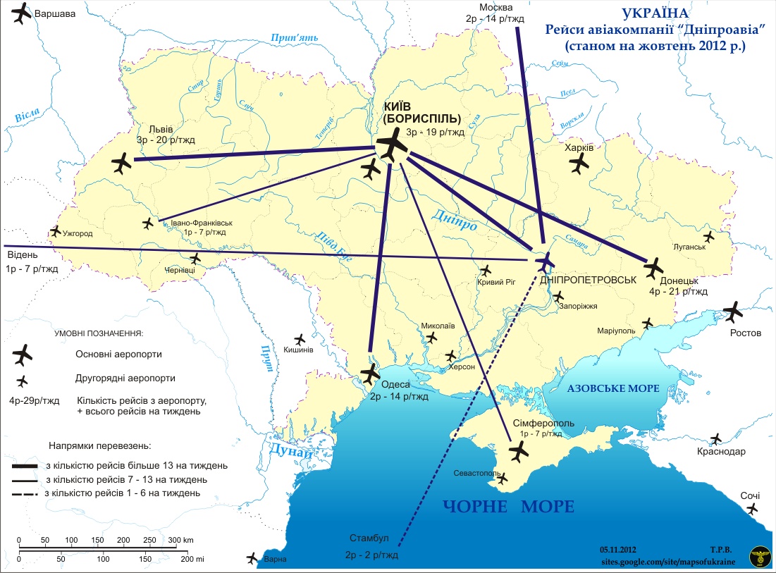 Flights airline "Dniproavia" (as of October 2012)